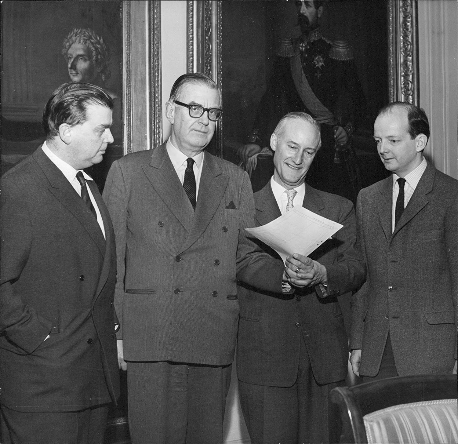 From left to right: doctor Kurt Grimlund, doctor and director general Arthur Engel, doctor Bertil Hood and doctor Lars Engstedt